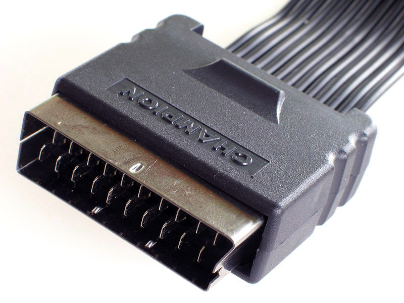 SCART connector, photo taken in Sweden